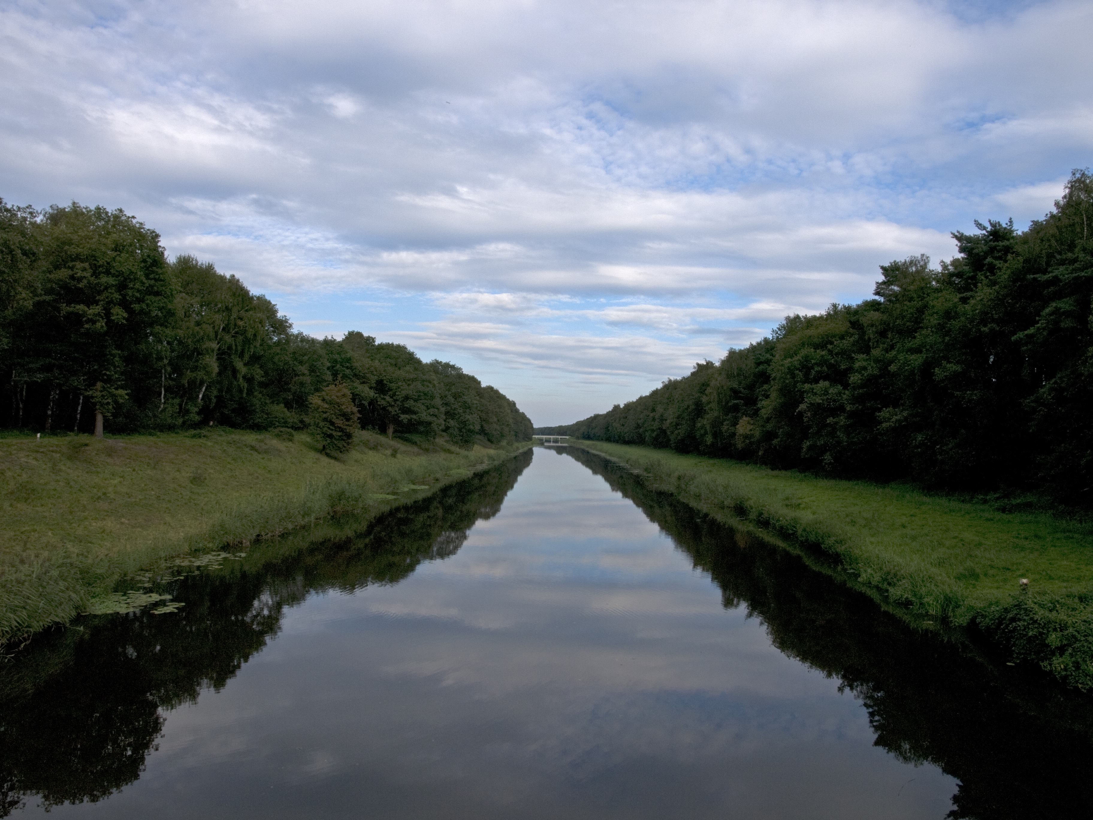 Afwateringskanaal 's-Hertogenbosch-Drongelen in Drunen